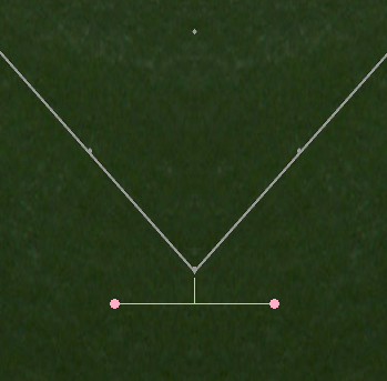 Original diagram of on-deck circles